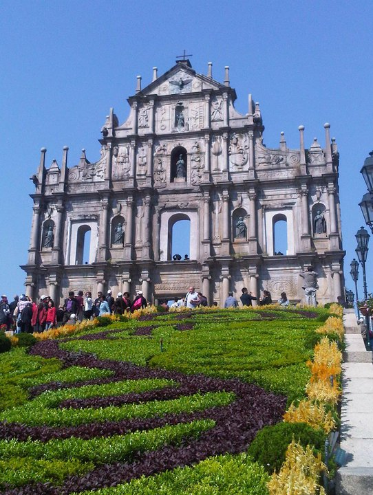 The Ruins of St. Paul's (Ruínas de São Paulo; 大三巴牌坊), Macau, 2010